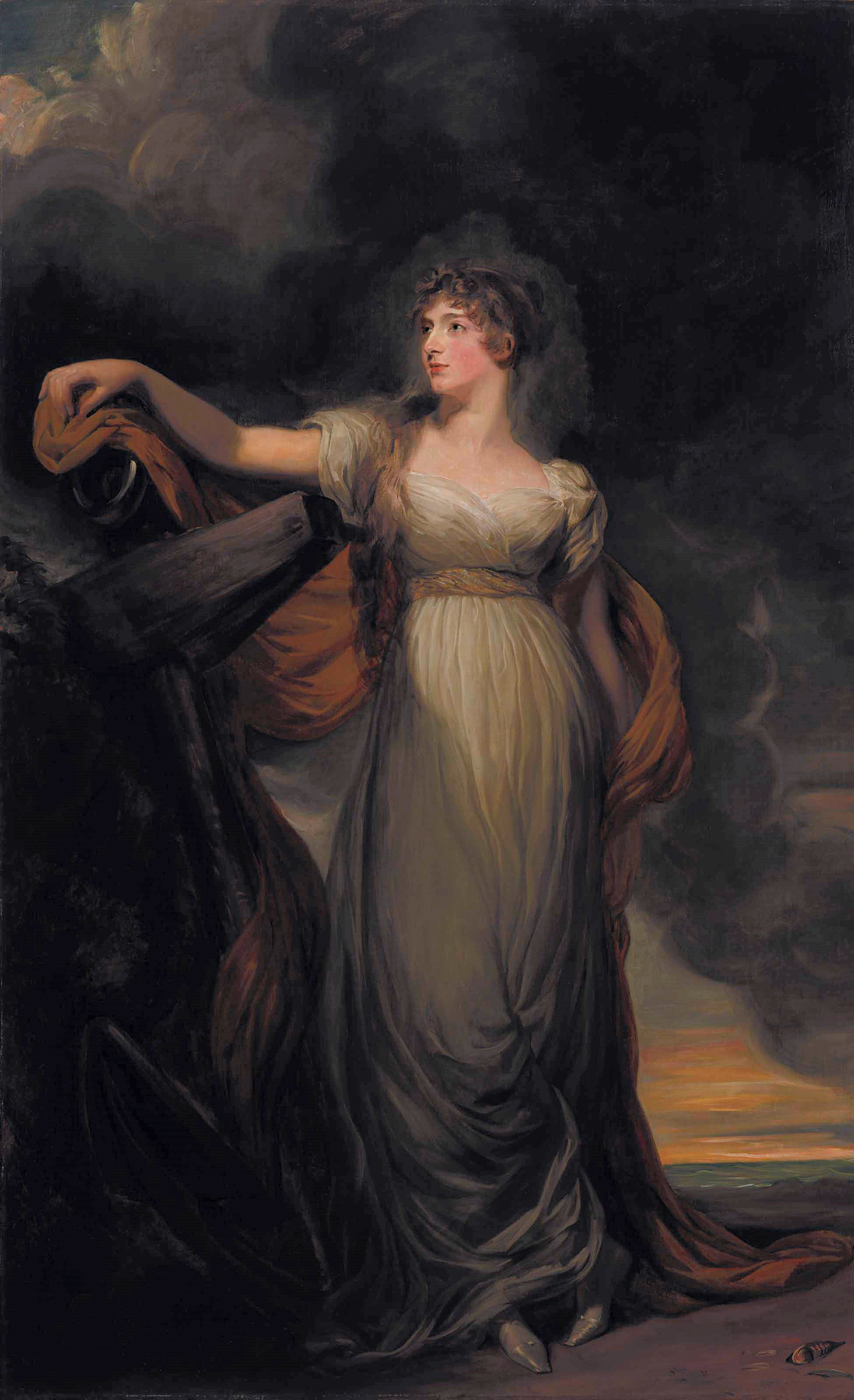 Louisa Montagu, Viscountess Hinchingbrook, later Countess of Sandwich (1781-1862), full-length, as Hope oil on canvas 240.4 x 148.4 cm circa 1804